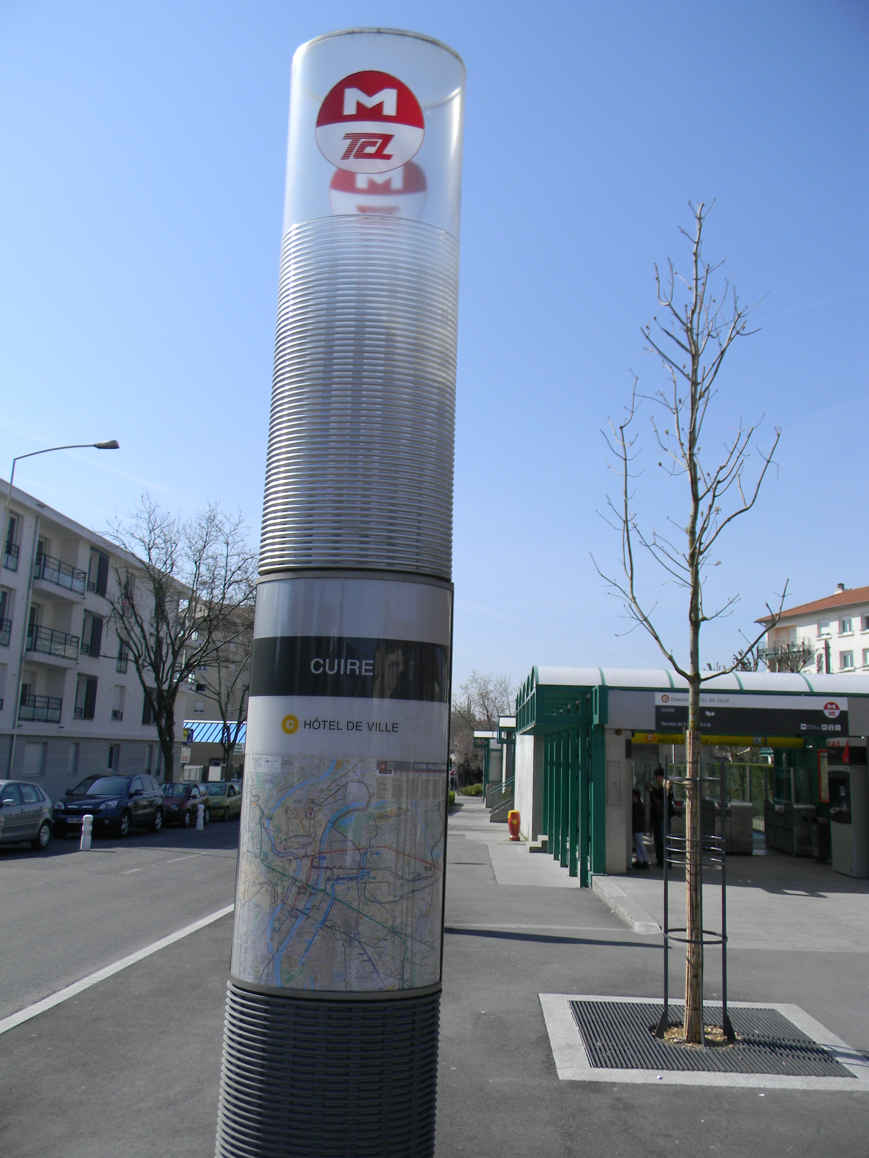 Subway station of Cuire